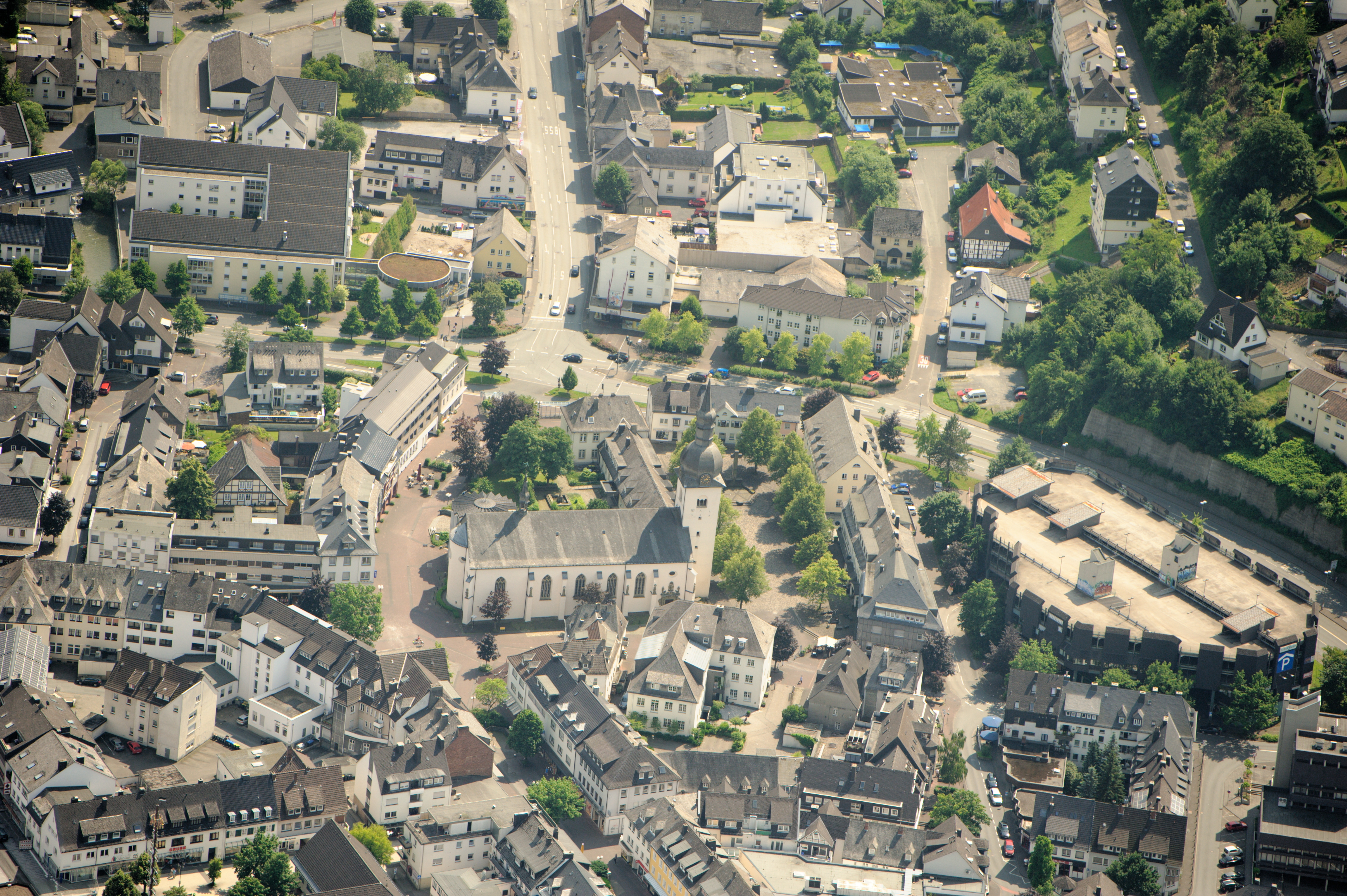 Fotoflug Sauerland-Ost – Meschede Innenstadt mit St.-Walburga-Kirche The making of this document was supported by the Community-Budget of Wikimedia Germany.